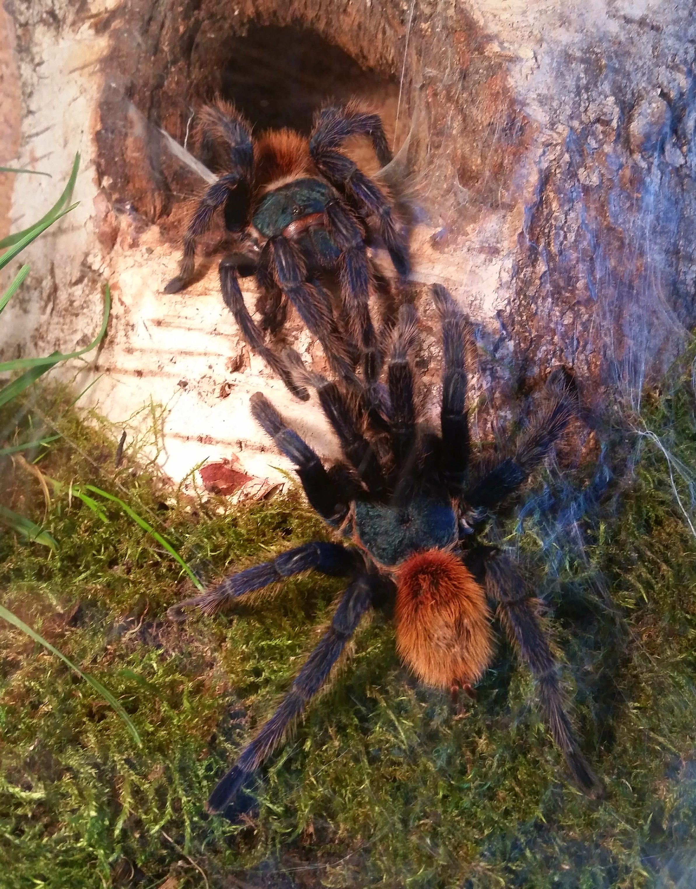 Chromatopelma cyaneopubescens mating